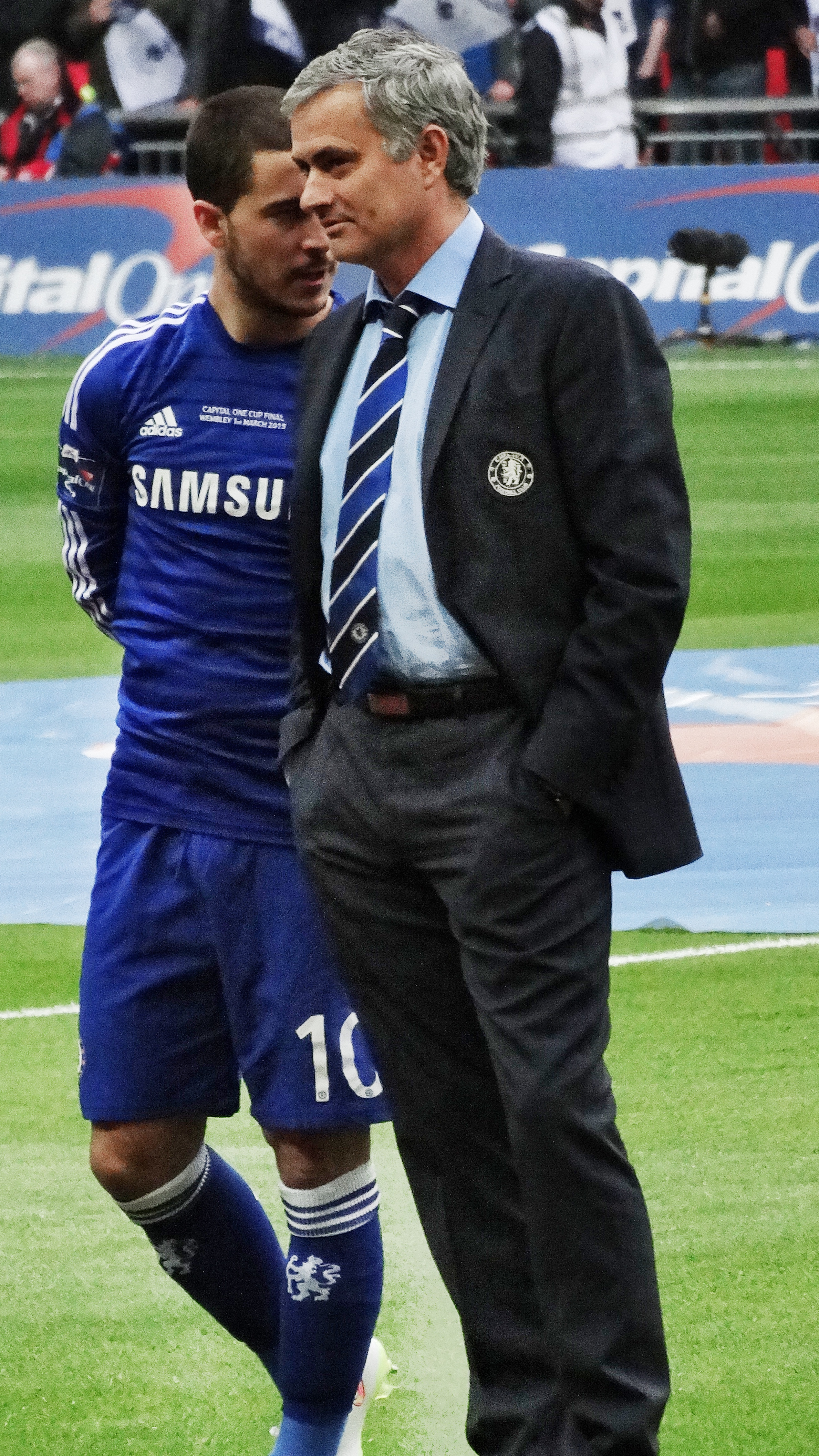 Chelsea 2 Spurs 0 Capital One Cup winners 2015